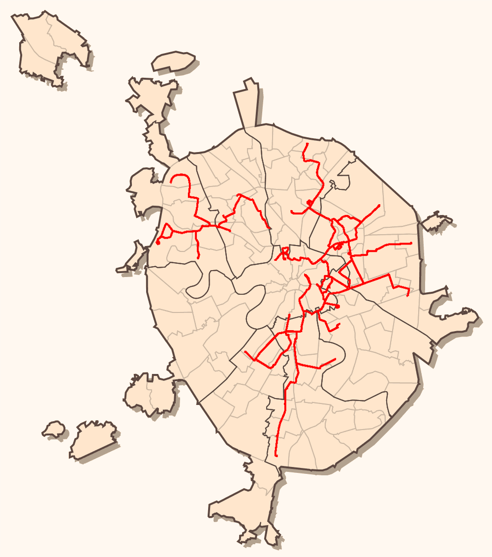 Moscow tram map. based on Moscow districts map by Panther